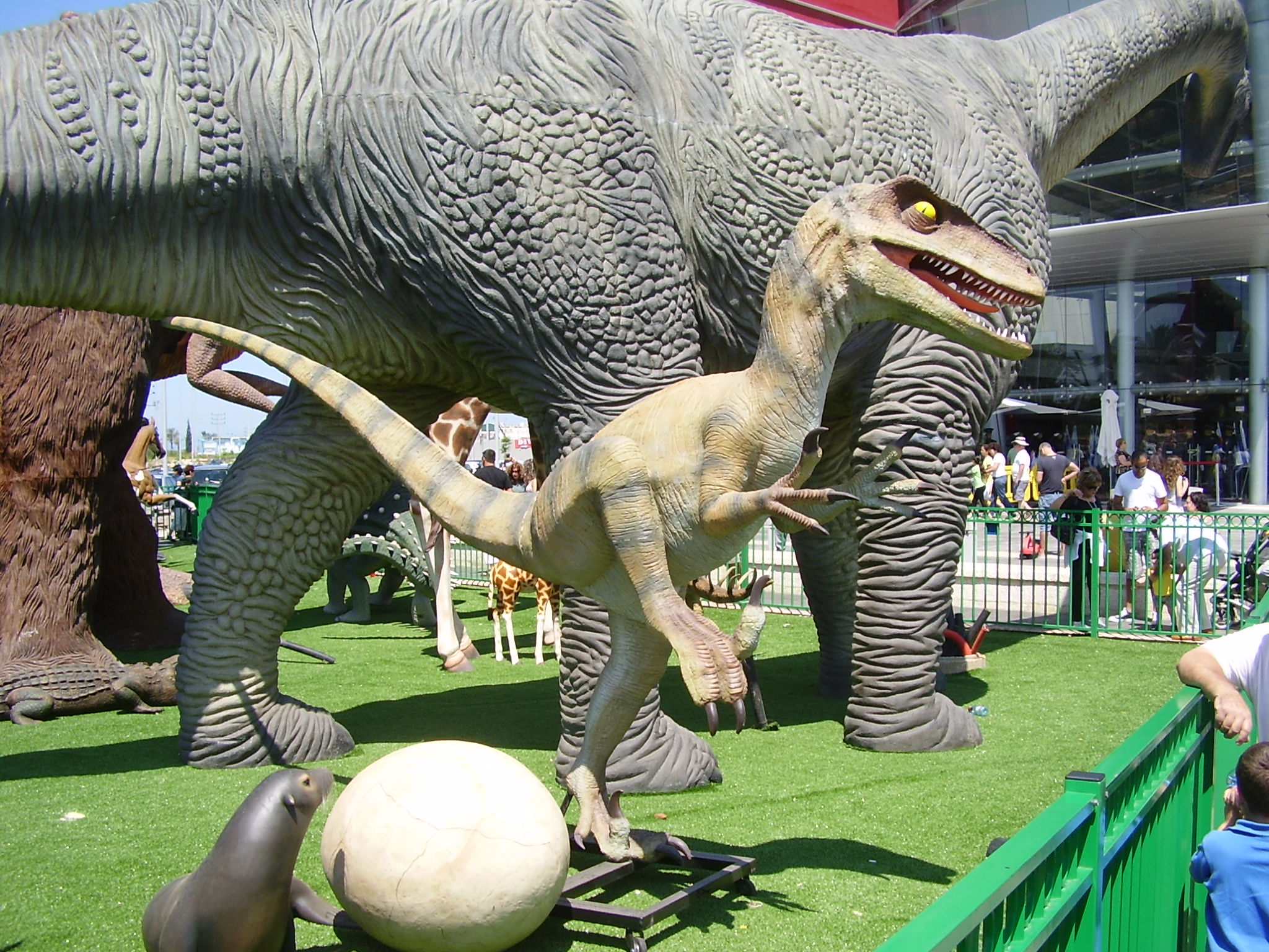 dinosaur in cinema cuty in rishon lezion